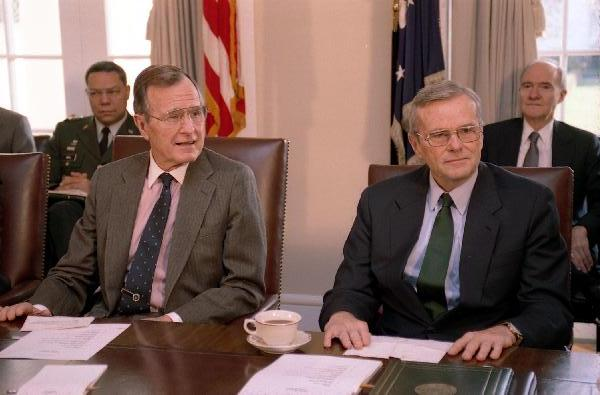 President George H. W. Bush and Secretary Nicholas Brady participate in a full cabinet meeting. 28 Jan 92